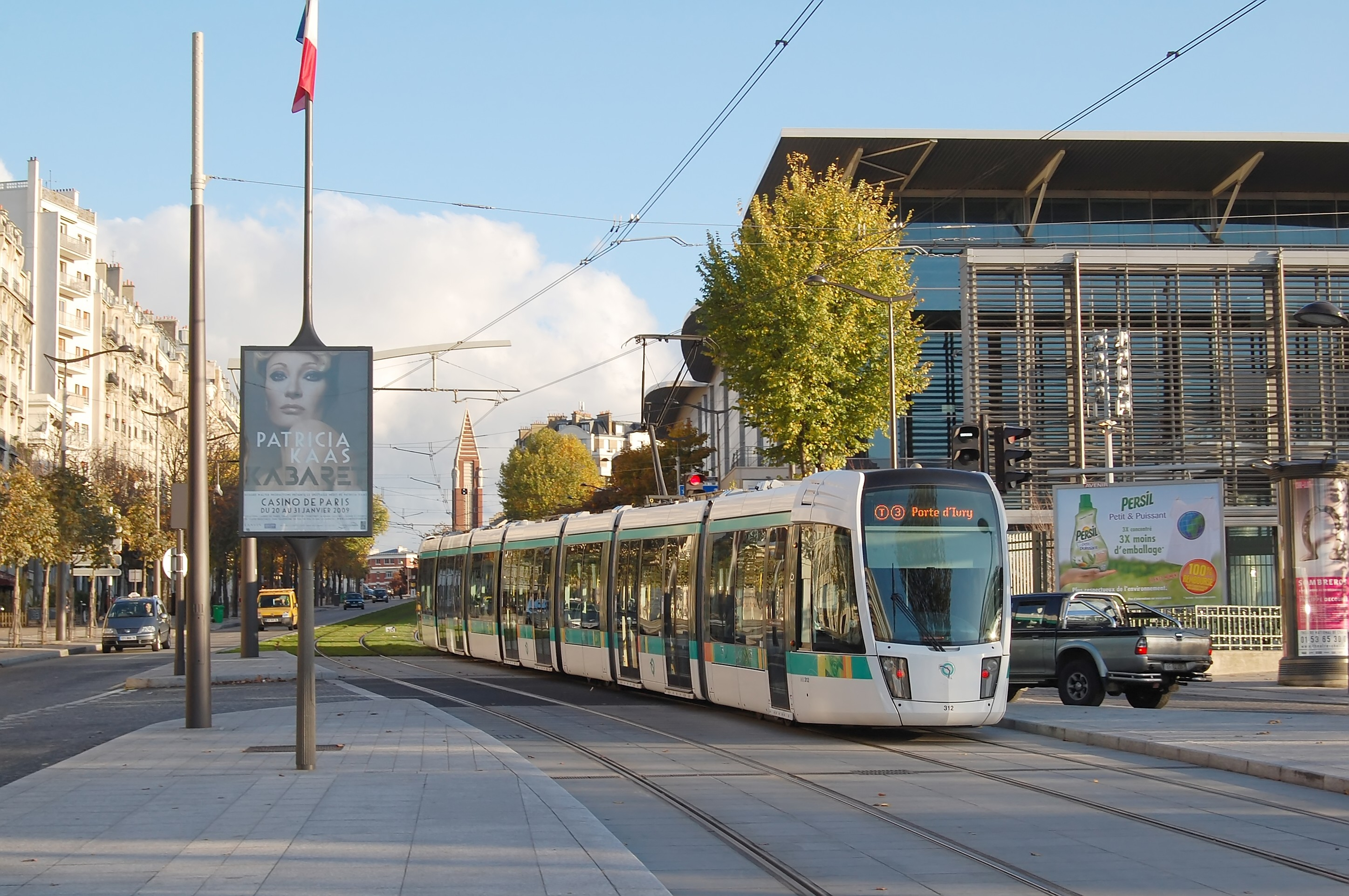 Tram line T3, "Porte de Versailles", Paris, France